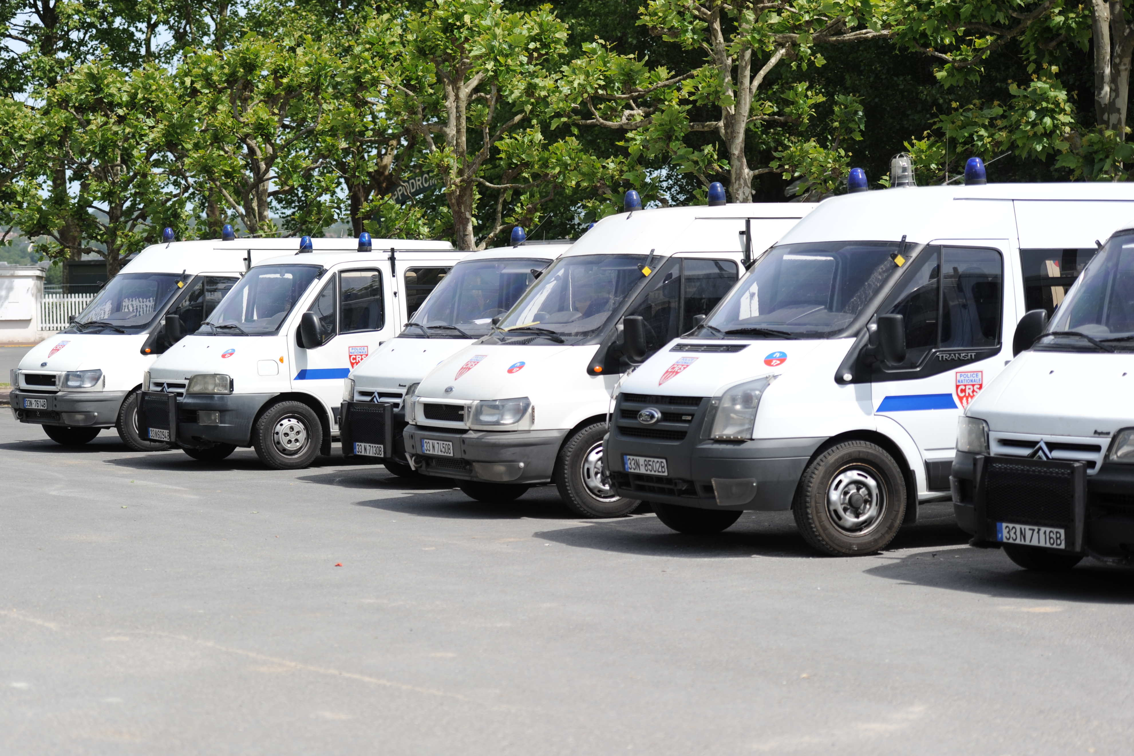 Police vehicles from Compagnies Républicaines de Sécurité (Republican Security Companies), parked near the Hippodrome de Deauville-La Touques (Deauville-La Touques Racecourse) that hosted the International Press Center during the 37th G8 summit in Deauville, France.